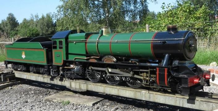 Silver Jubilee